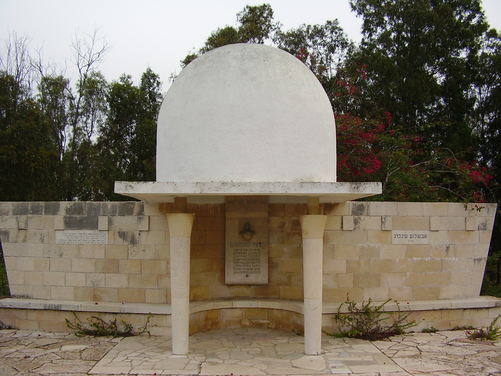 Memorial of Avshalom Feinberg, Israel